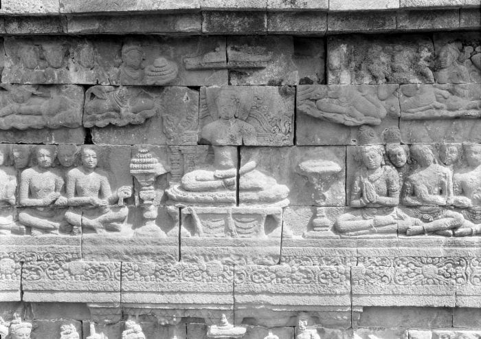 Relief at the Borobudur